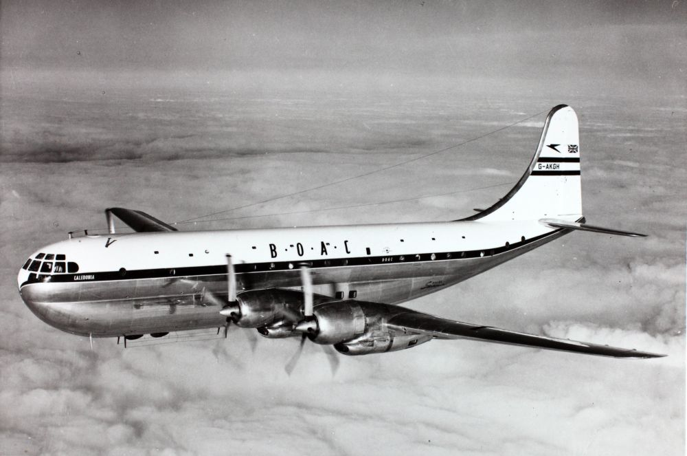 Catalog #: 15_001386 Title: Boeing 377 Stratocruiser ADDITIONAL INFORMATION: Boeing 377 Stratocruiser, BOAC, G-AKGH Collection: Charles M. Daniels Collection Photo Album Name: U.S. Manufacturers I, A to Br Page #: 73 Tags: Boeing 377 Stratocruiser PUBLIC COMMONS.SOURCE INSTITUTION: San Diego Air and Space Museum Archive